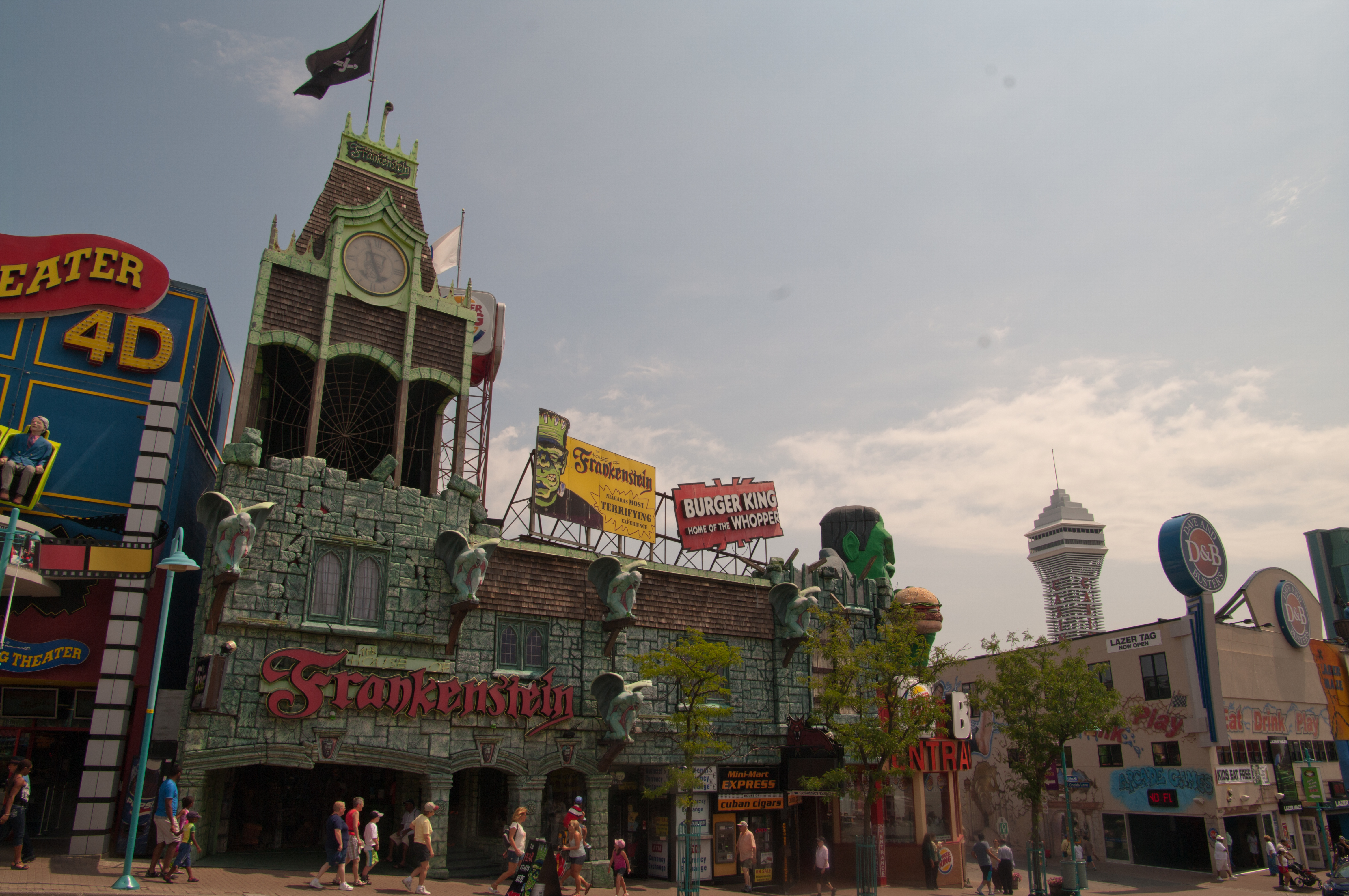 Frankensteins Burger KIng Castle in Niagara Falls, Ontario